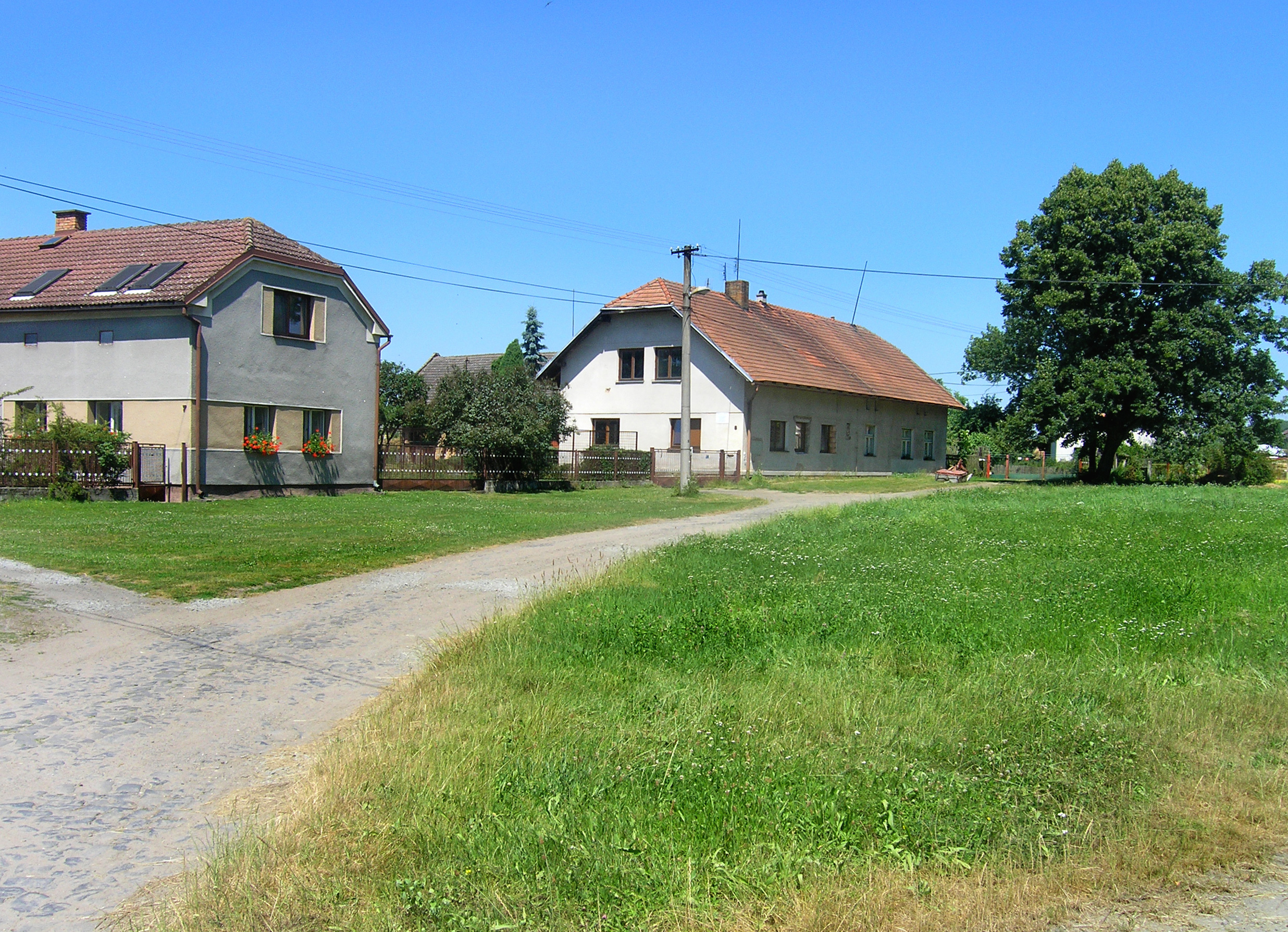 Common in Býčina, part of Kněžmost, Czech Republic